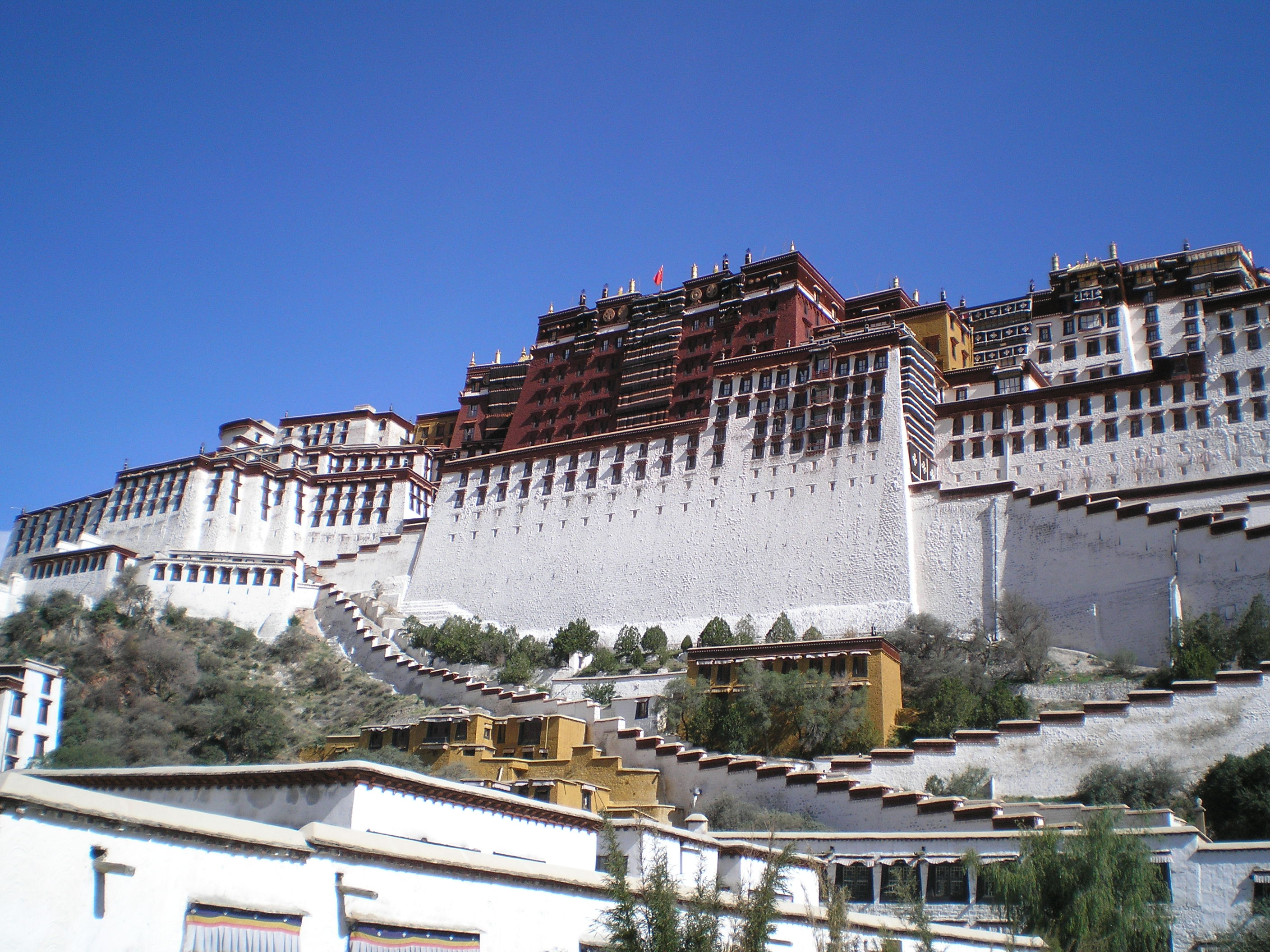 Potala Palace, Lhasa, Tibet, China.